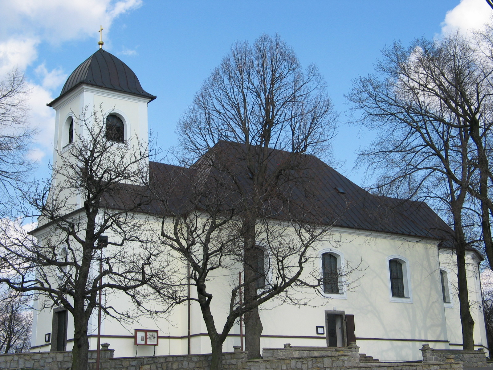 Church of st. Jilji in Ruda